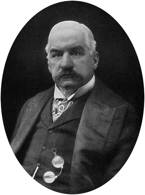 J. P. Morgan photo from Images of American Political History, public domain.